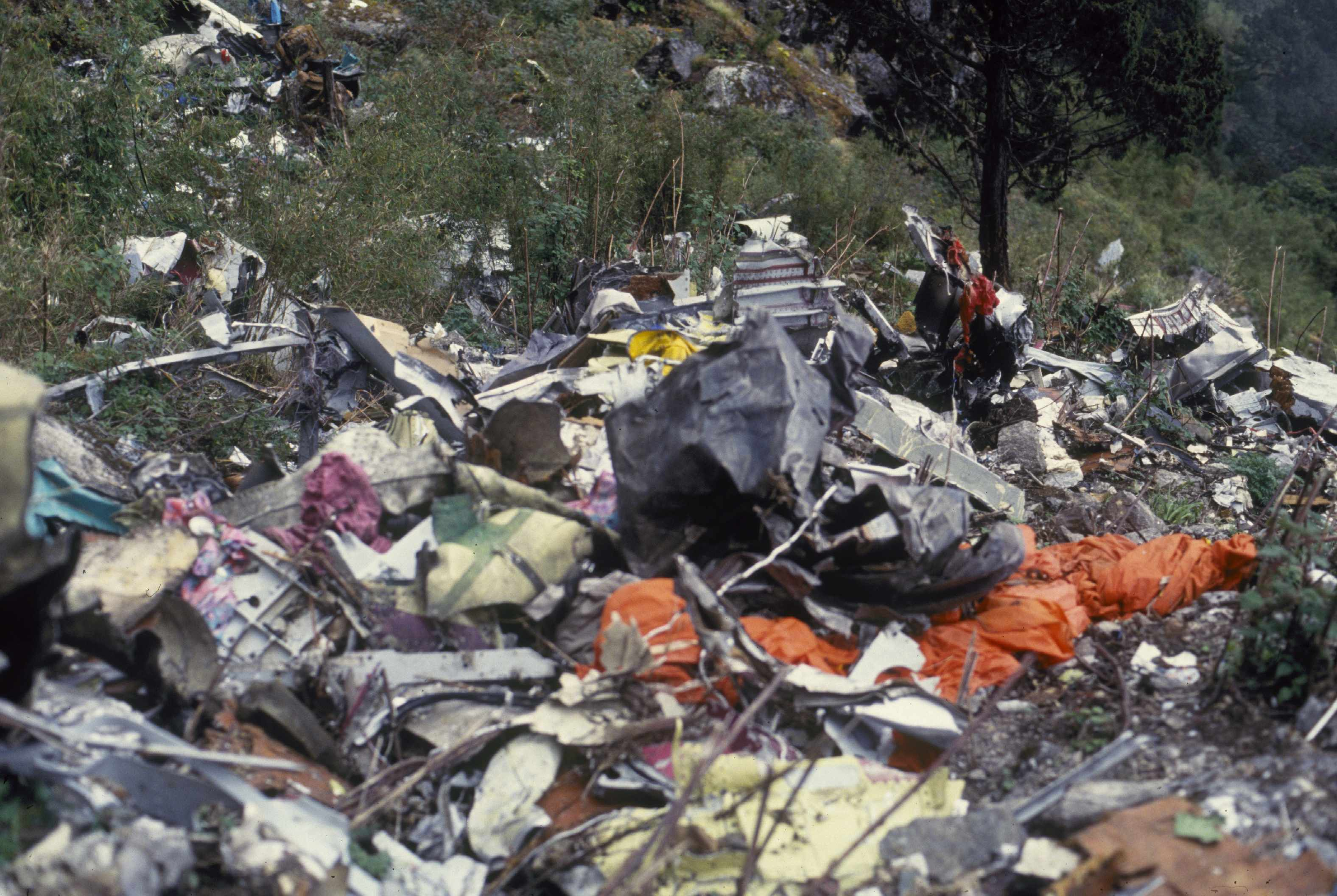 Scattered aircraft parts and luggage of victims on steep slope.